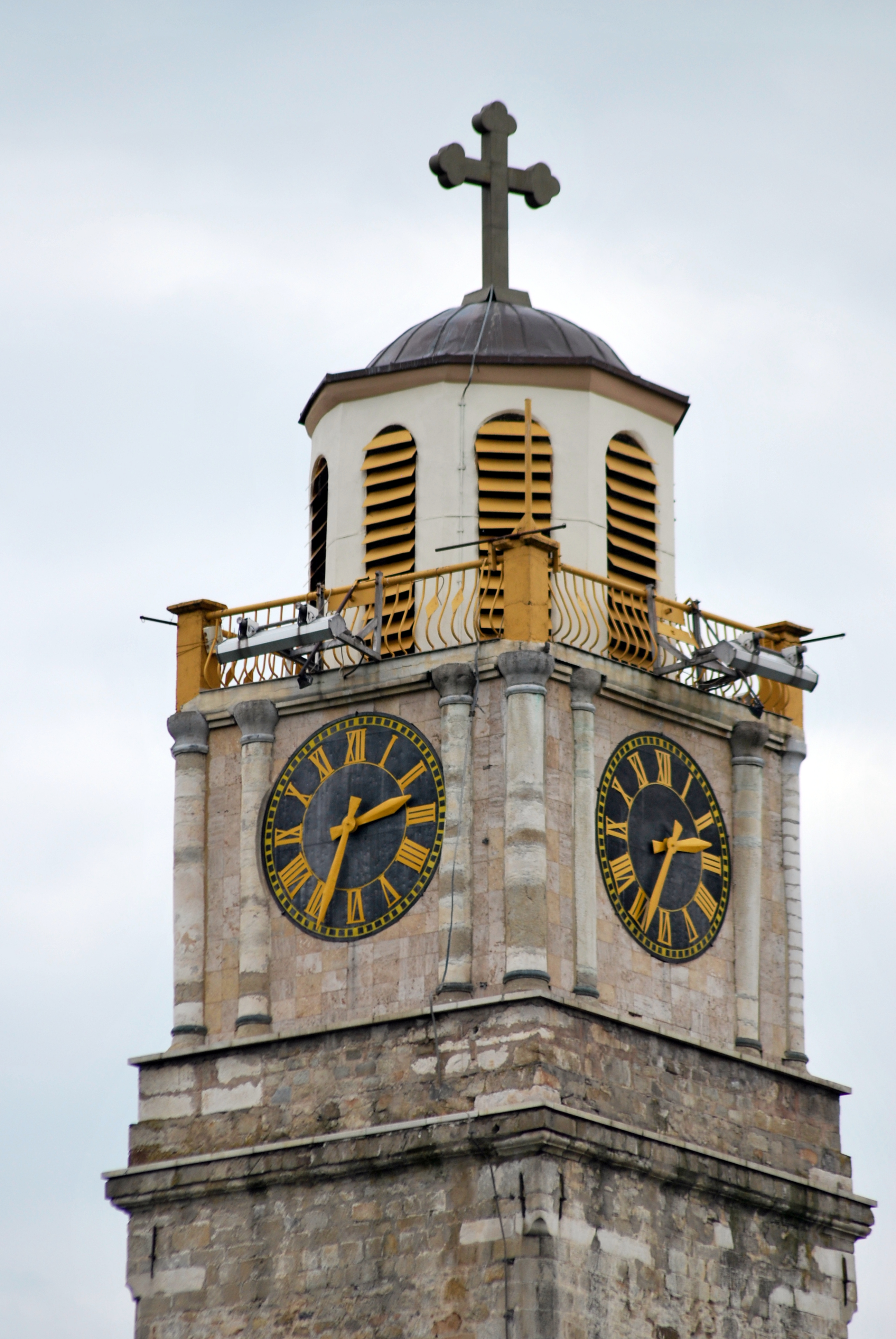 Clock tower in Bitola, Macedonia